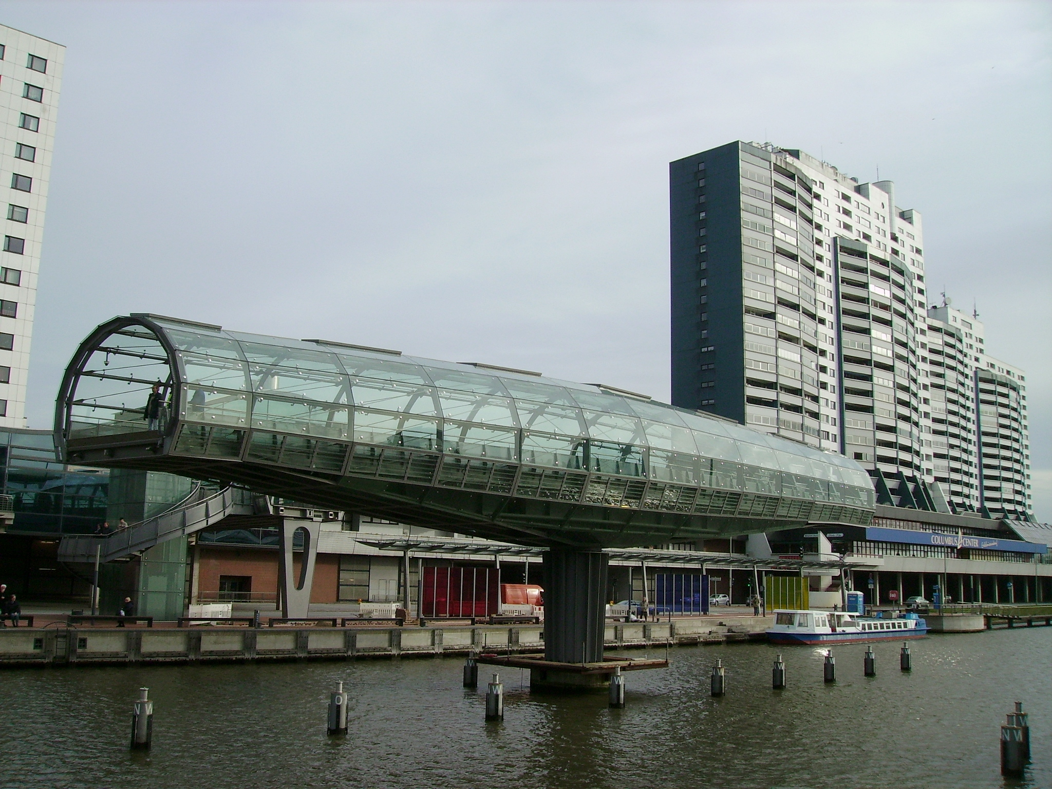 The glass swing bridge for pedestrians over the Old Port in Bremerhaven has been moved in order to allow the passage of a museum ship back to its regular position near the German Maritime Museum